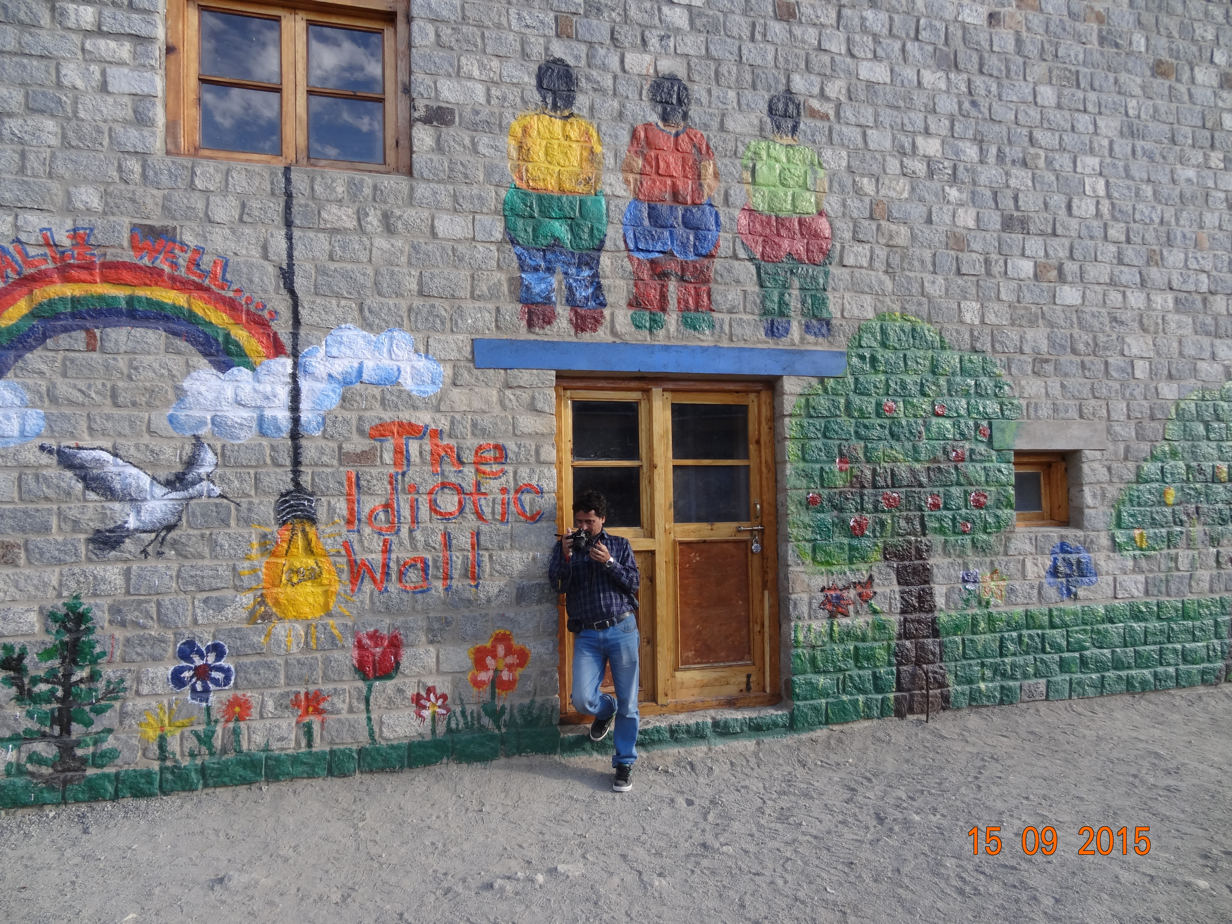 from the movie 2009 this wall had an epic sceen and its a tourist attraction now!